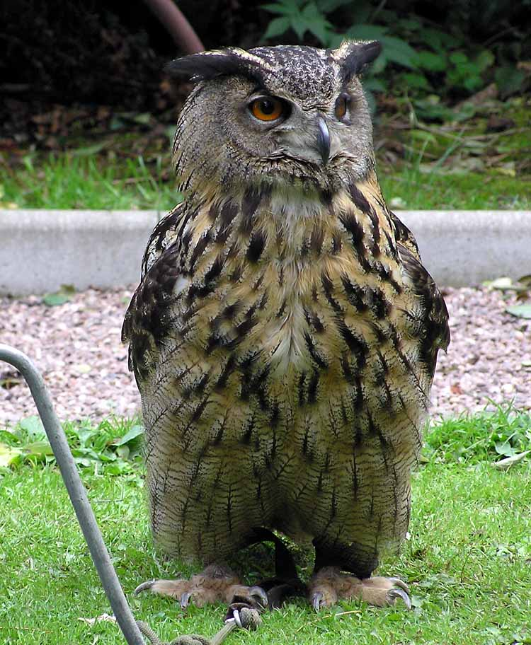 Eagle Owl at Combe Martin Wildlife and Dinosaur Park, North Devon, England.